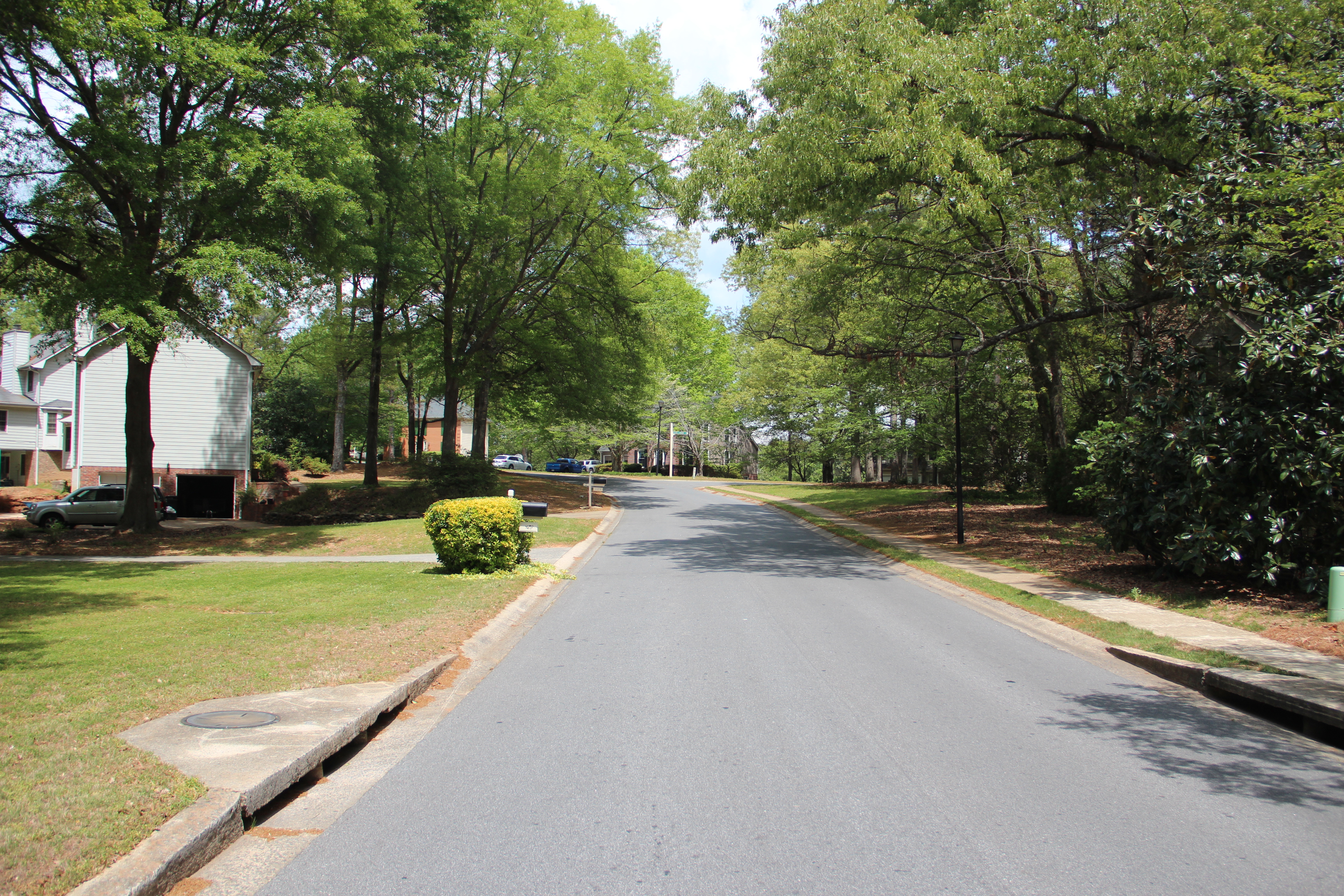 Lees Trace, a road inside the Lee's Crossing subdivision.